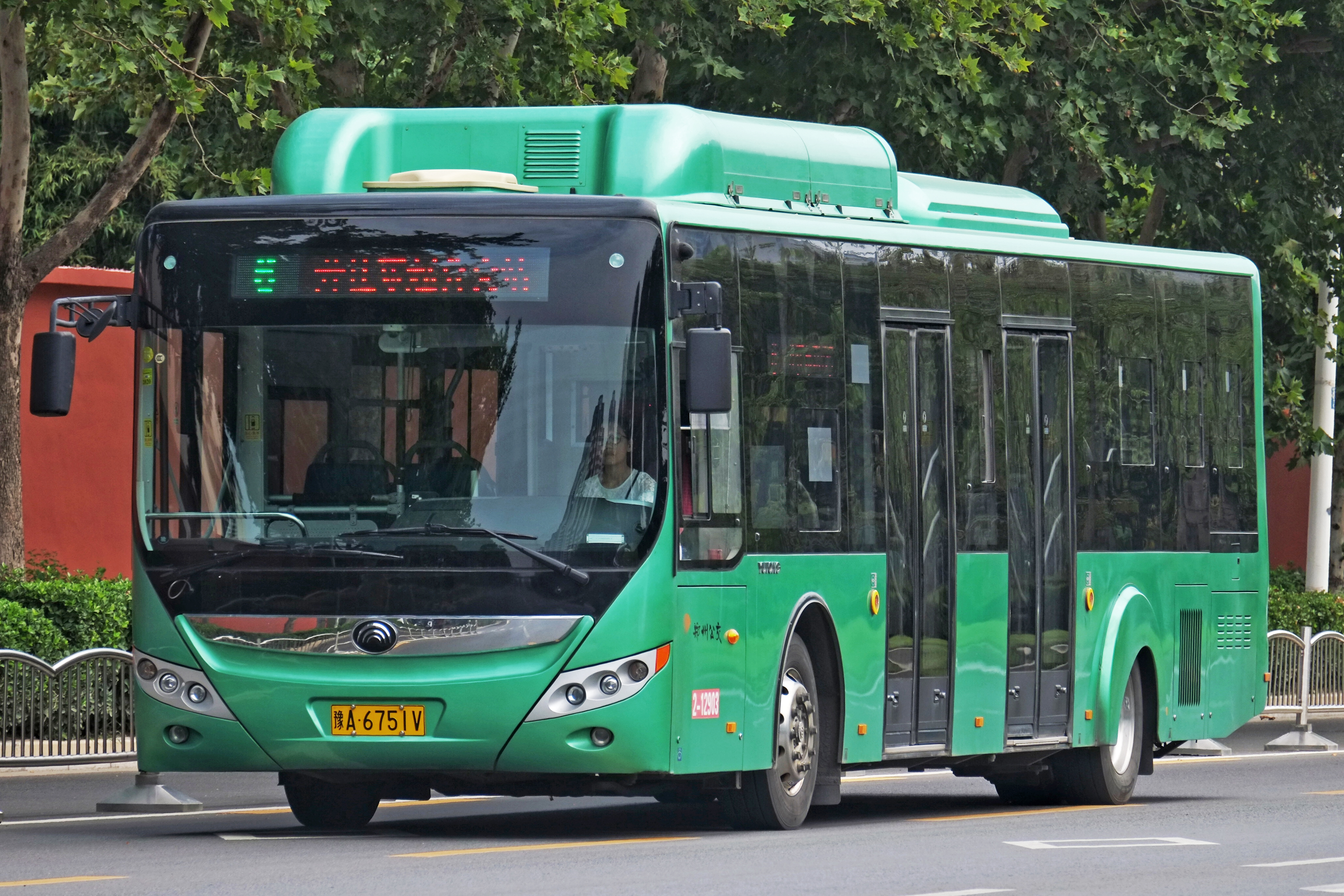 Yutong E12 on Zhengzhou Bus Route 6